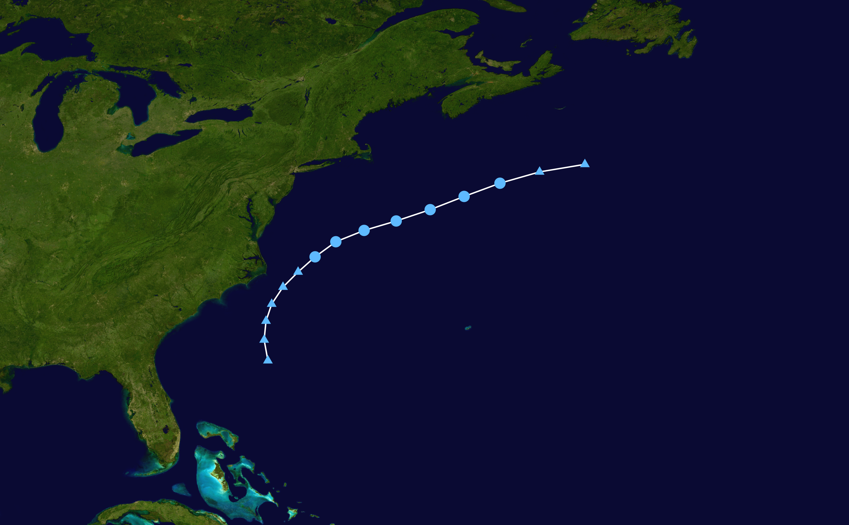 Track map of Tropical Depression One of the 2009 Atlantic hurricane season. The points show the location of the storm at 6-hour intervals. The colour represents the storm's maximum sustained wind speeds as classified in the Saffir–Simpson scale (see below), and the shape of the data points represent the nature of the storm, according to the legend below. Saffir–Simpson scale Tropical depression≤38 mph≤62 km/h Category 3111–129 mph178–208 km/h Tropical storm39–73 mph63–118 km/h Category 4130–156 mph209–251 km/h Category 174–95 mph119–153 km/h Category 5≥157 mph≥252 km/h Category 296–110 mph154–177 km/h Unknown Storm type Tropical cyclone Subtropical cyclone Extratropical cyclone / Remnant low / Tropical disturbance / Monsoon depression